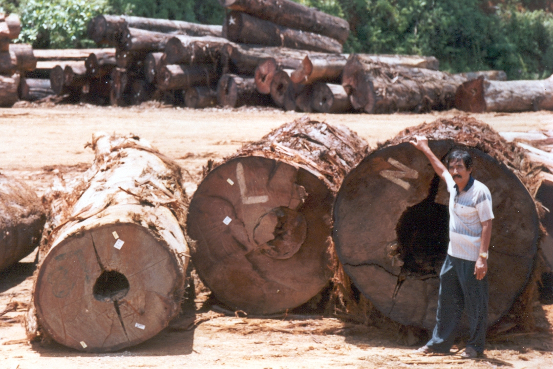 big Chengal logs in the sawmill 2003